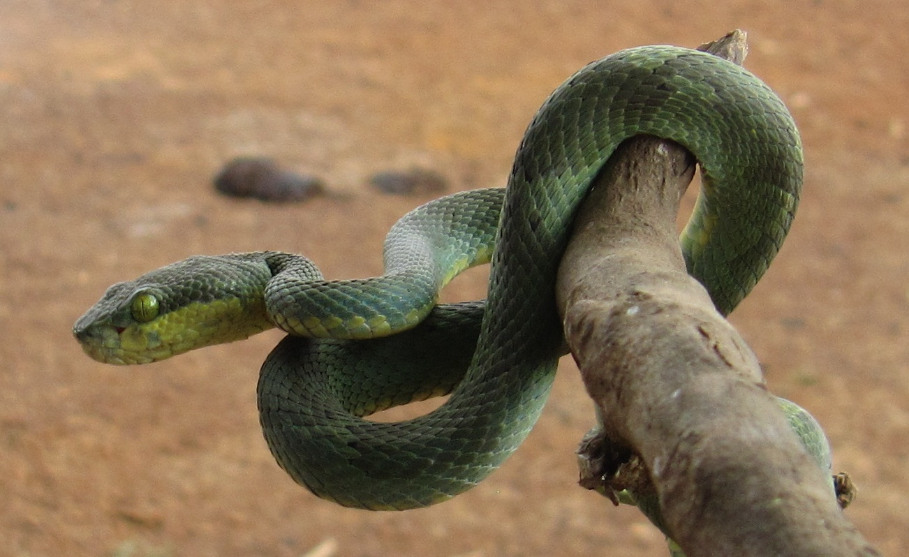 The Scales Of The Bamboo Pit Viper Are Clearly Visible In This Image